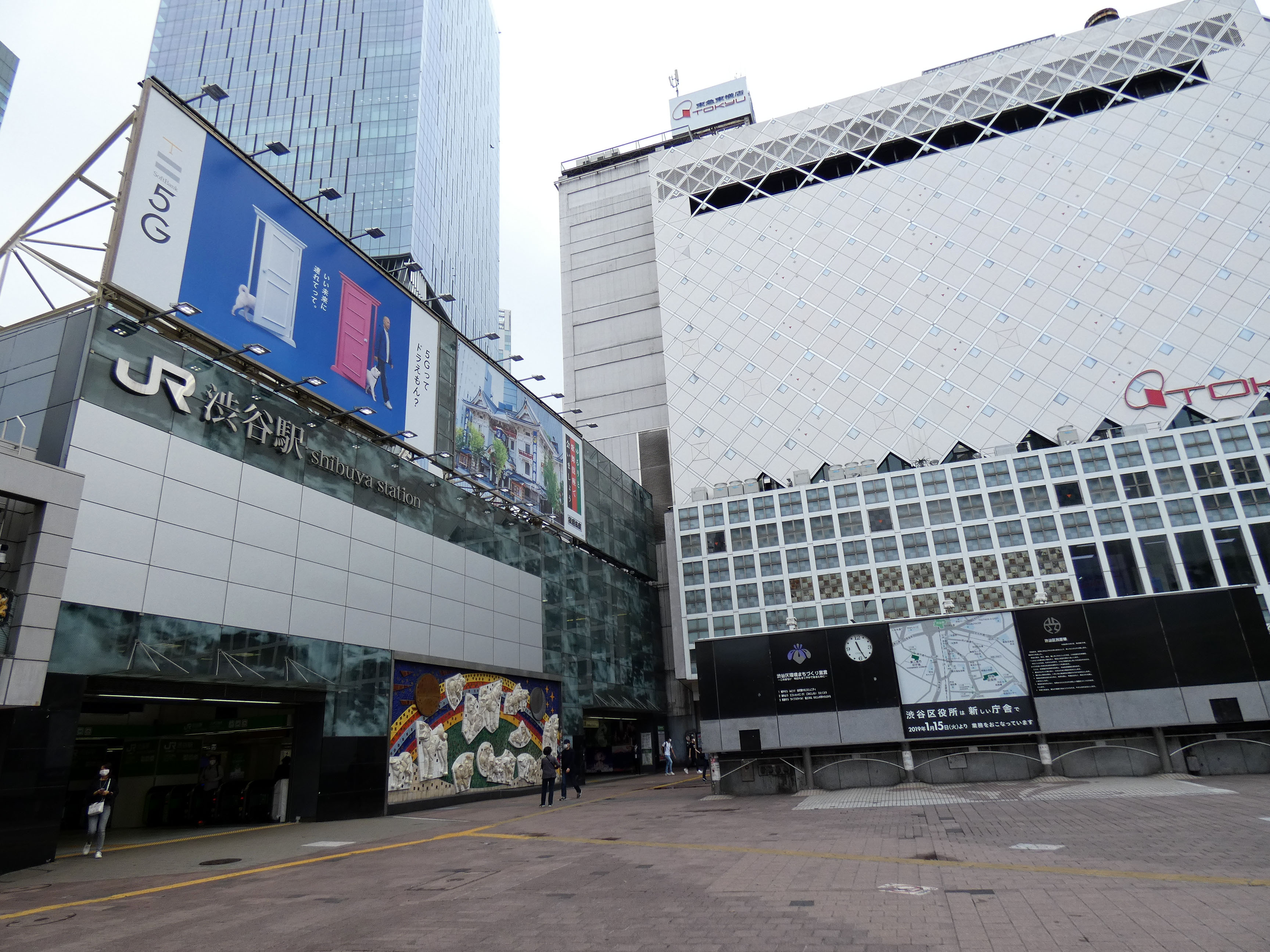 Shibuya station Hachiko entrance (Tokyo, Japan)